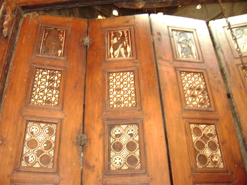 An image of the Door of Prophecies which is a large door inside the Syrian Monastery, of Wadi El Natrun (Natron Valley) in Egypt.